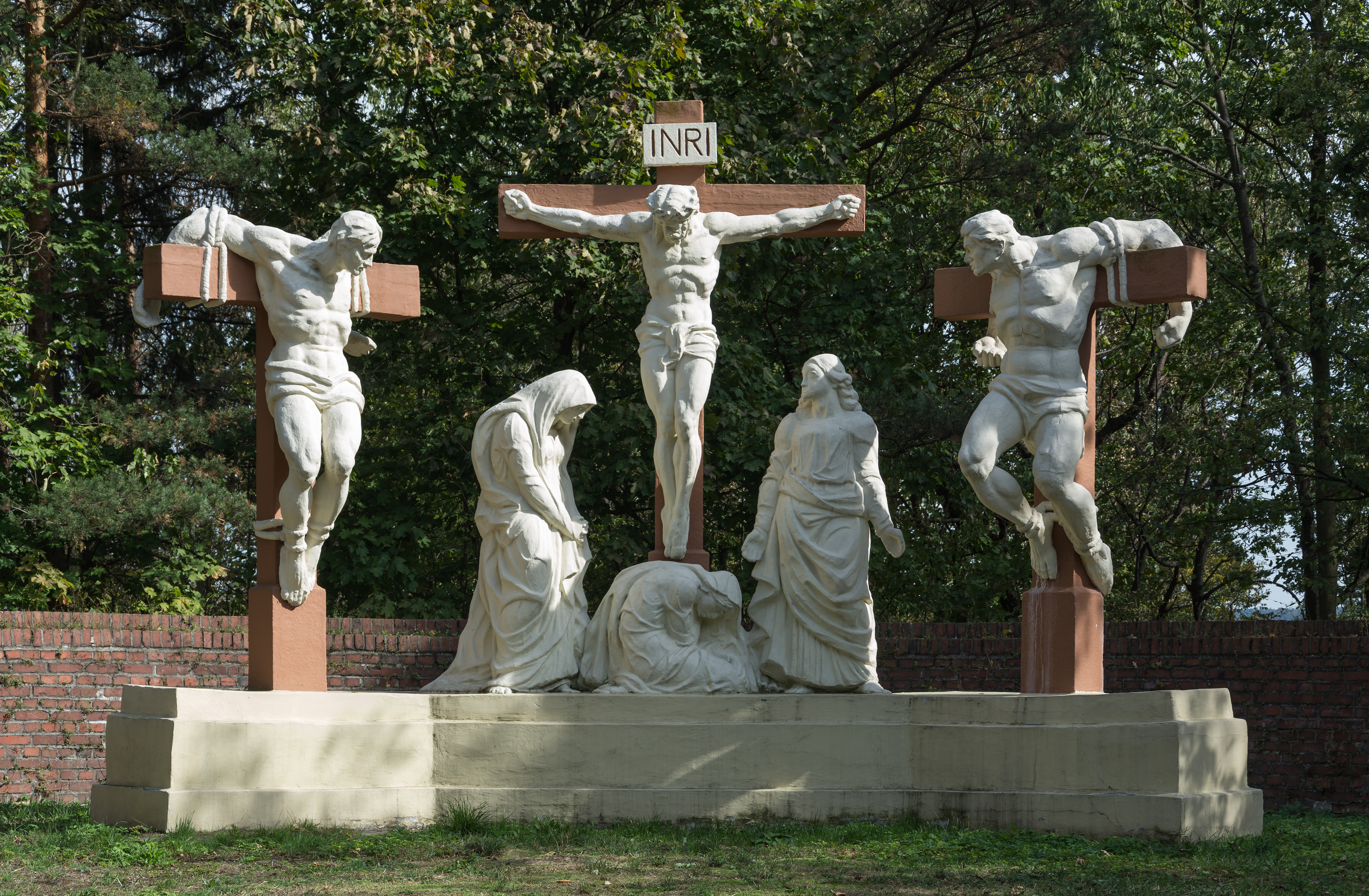 Mount Rosary chapels in Bardo, Chapel of the Crucifixion Ta fotografia przedstawia zabytek wpisany do rejestru zabytków pod numerem ID 599875